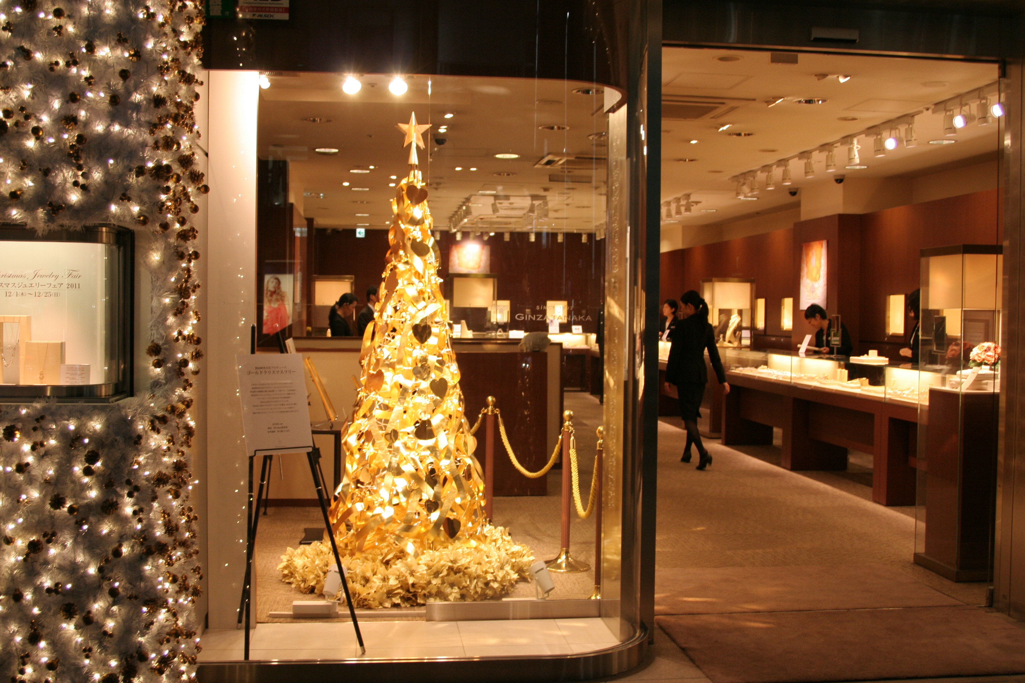 Golden Christmas tree in Ginza Takana jewelry store in Ginza, Tokyo, Japan. Tree is about 2,4 meters high and it has about 12 kilograms of gold. It's worth 150 million yen (about 1,43 million euro), but the tree is not for sale.